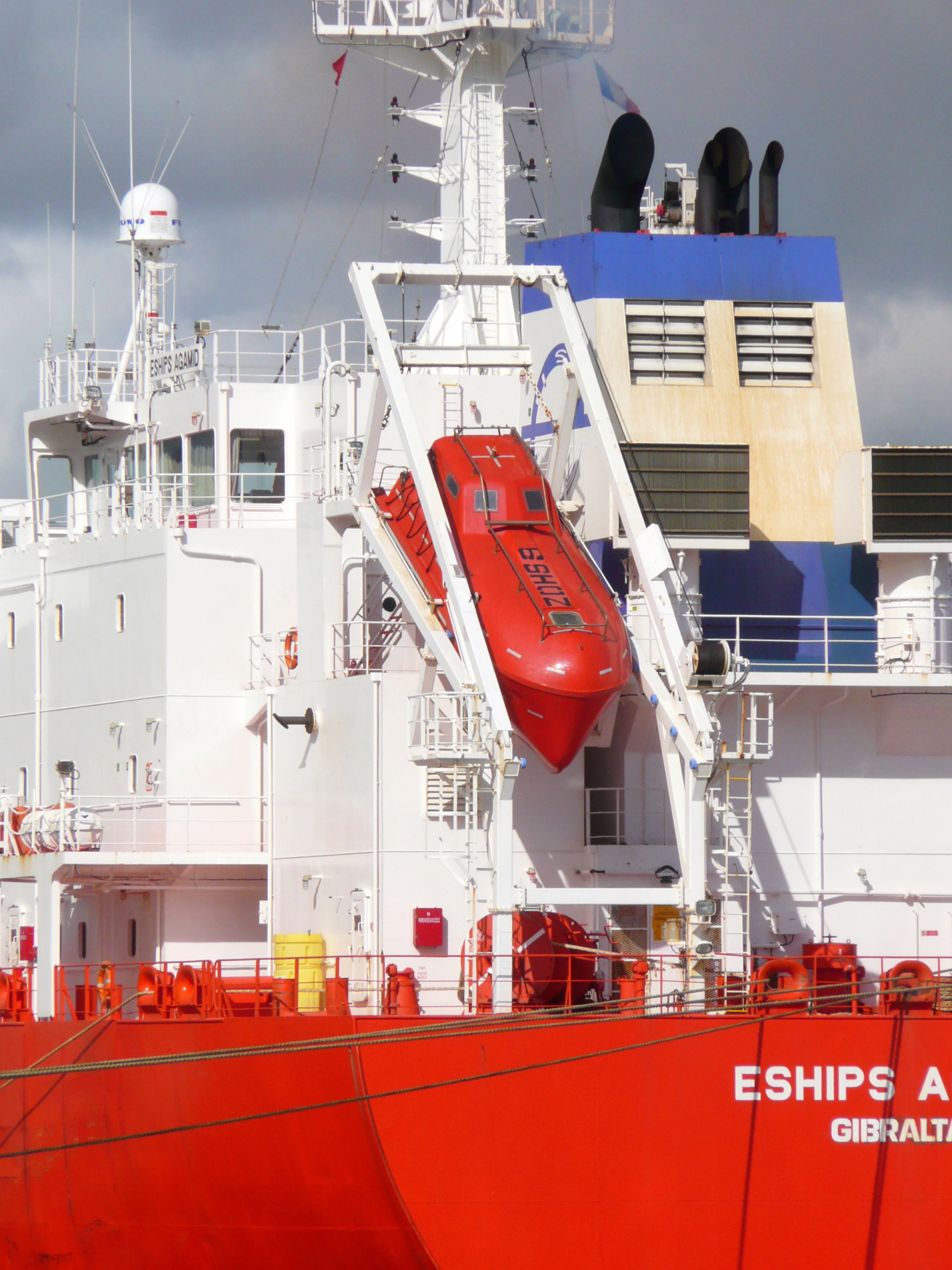 Free fall lifeboat of a chemical tanker. Lorient France